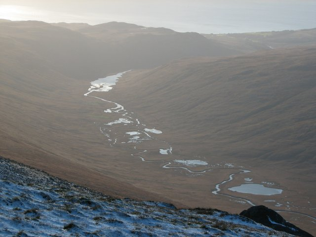 Glen Iorsa A flat and wet valley floor. The meanderings of the Iorsa Water cover three grid squares with Loch Iorsa in a fourth.